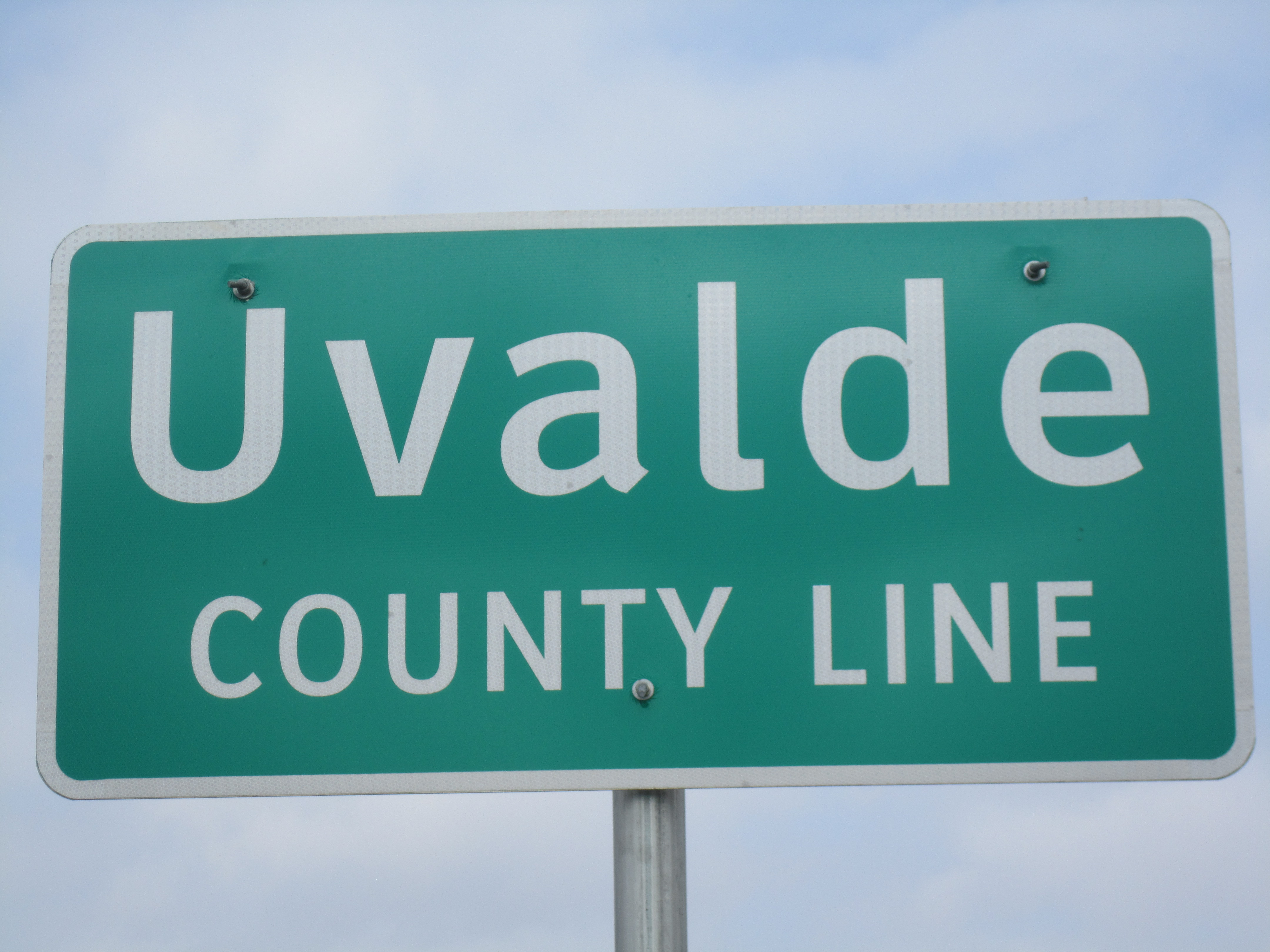 I took photo in Uvalde County, TX, with Canon camera.